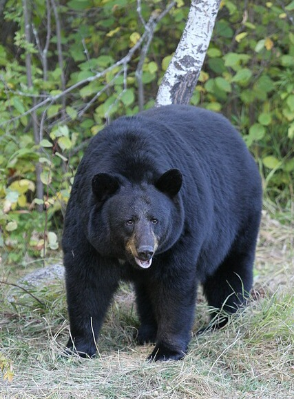 American black bear (Ursus americanus) near Riding Mountain Park, Manitoba, Canada